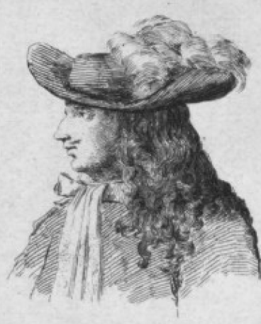 Charles Varlet, sieur de La Grange, French actor with the troupe of Molière